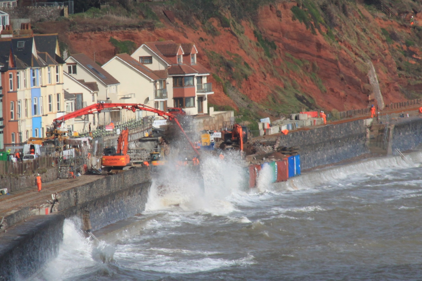 Pouring concrete to plug the hole in the sea wall below Sea Lawn Terrace at Dawlish, 24 February 2014.